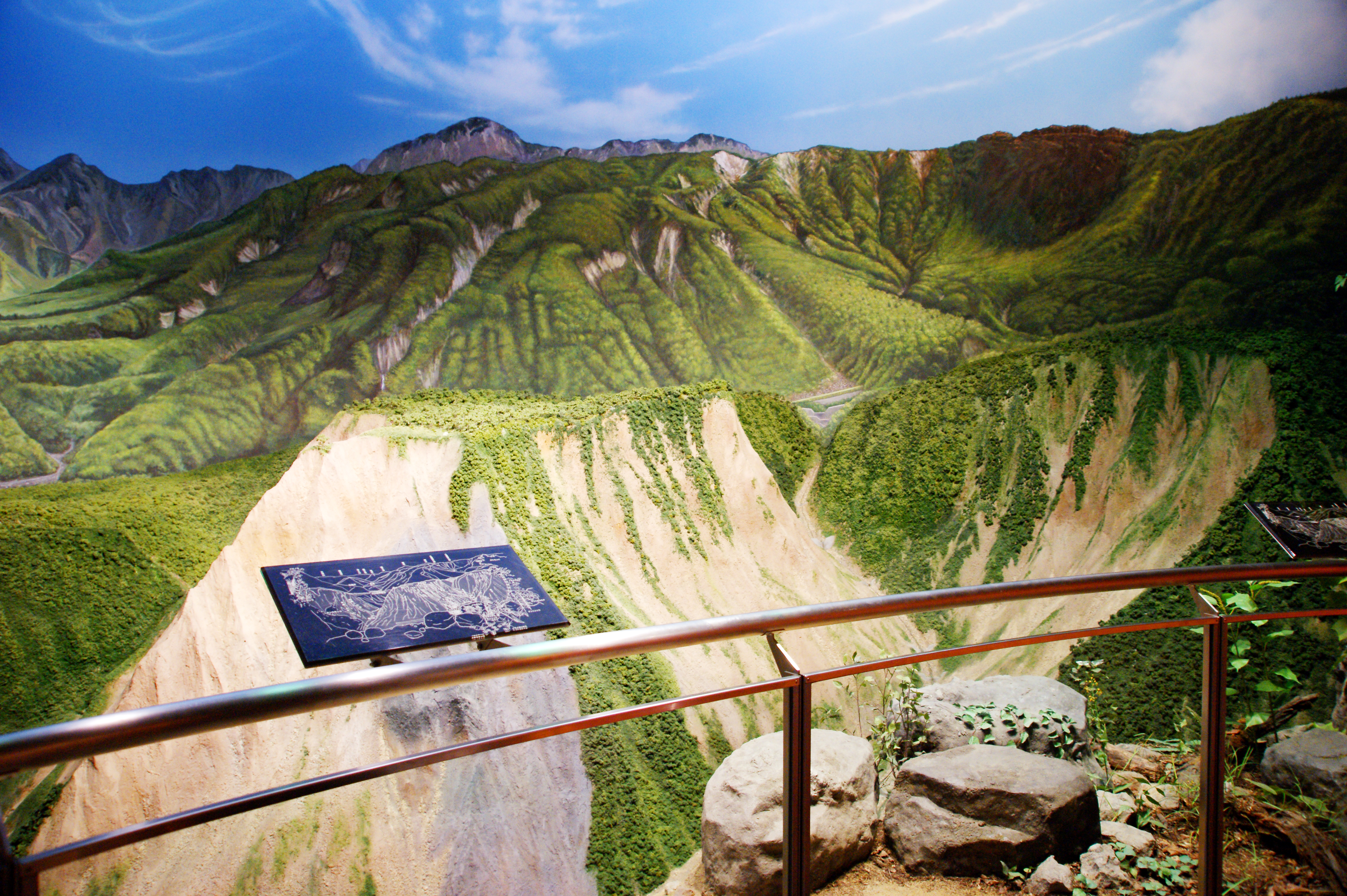 Tateyama Caldera Sabo Museum in Tateyama, Toyama prefecture, Japan